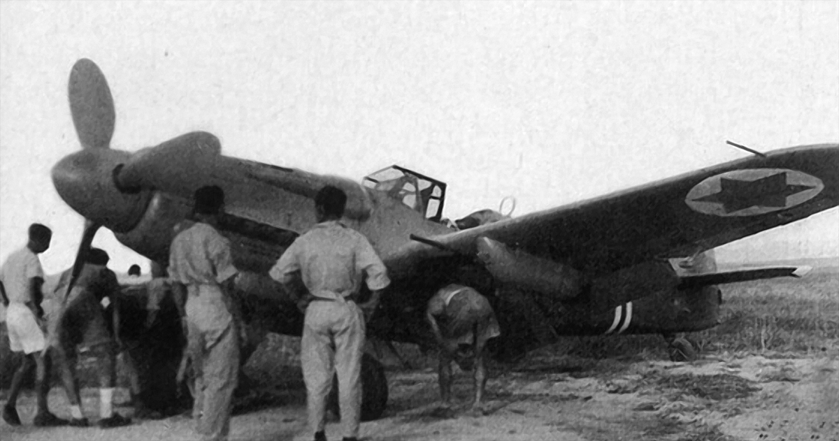 Israeli Air Force Avia S-199 of the 101st squadron taken in 1948. The Avia S-199 was removed from the Israeli Air Force battle roster in late 1949 being replaced by Spitfires and P-51 Mustangs.